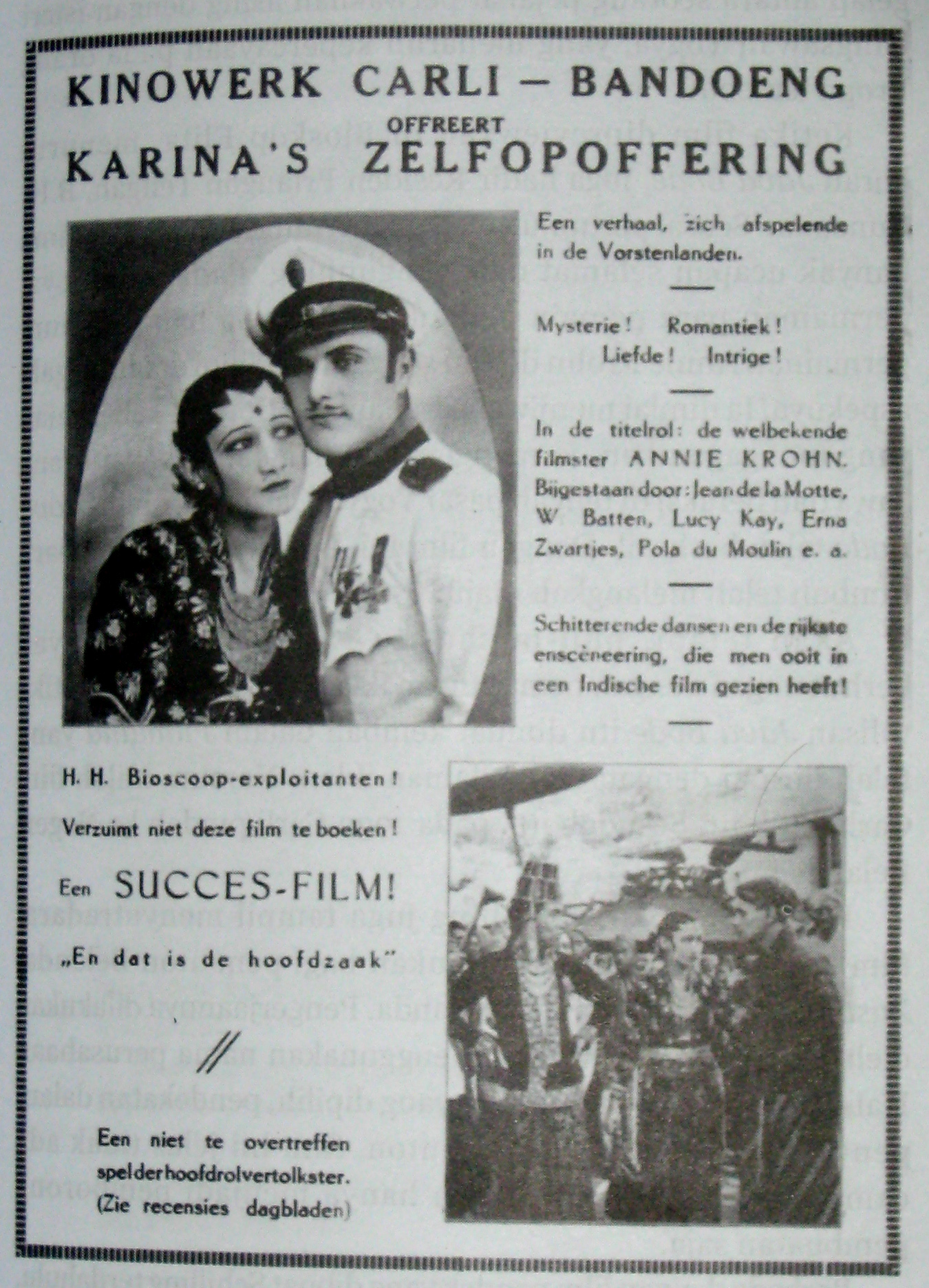 One sheet for the film Karina's Zelfopoffering